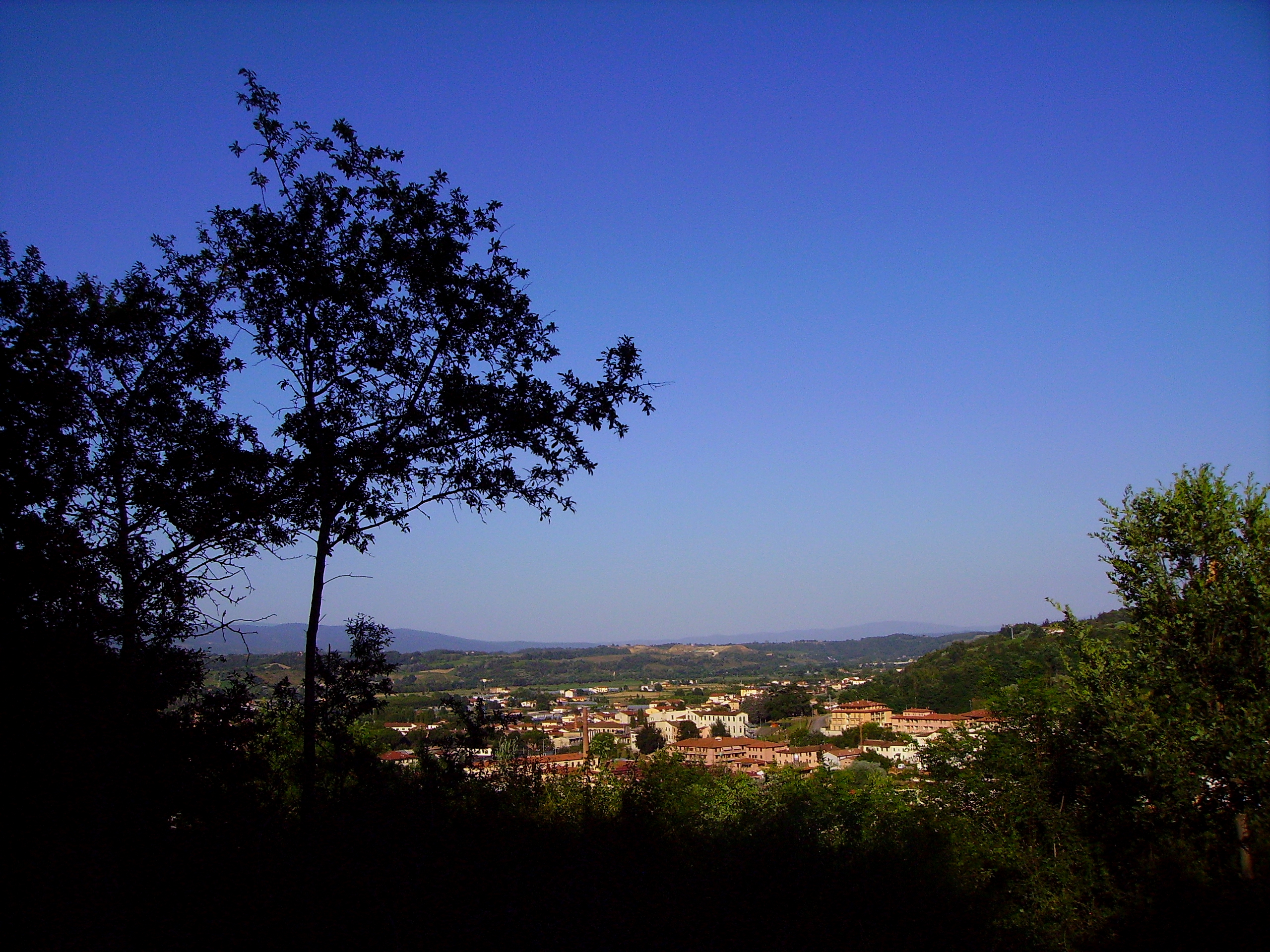 Panorama of Montevarchi from a watch point of the former Castle of Montevarchi. It was the observing point to watch the La Ginestra Hospital